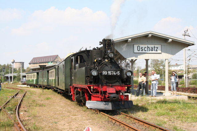 Narrow gauge train at Oschatz